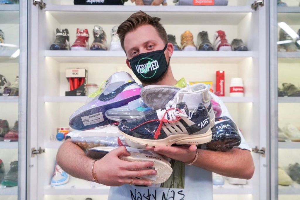 Yeezy Busta At Stadium Goods in 2019